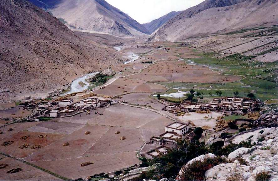 Overlooking Pelgyeling Gompa at Milarepa's Cave, Tibet. I took this photo in 1993. John Hill 06:57, 30 January 2007 (UTC)